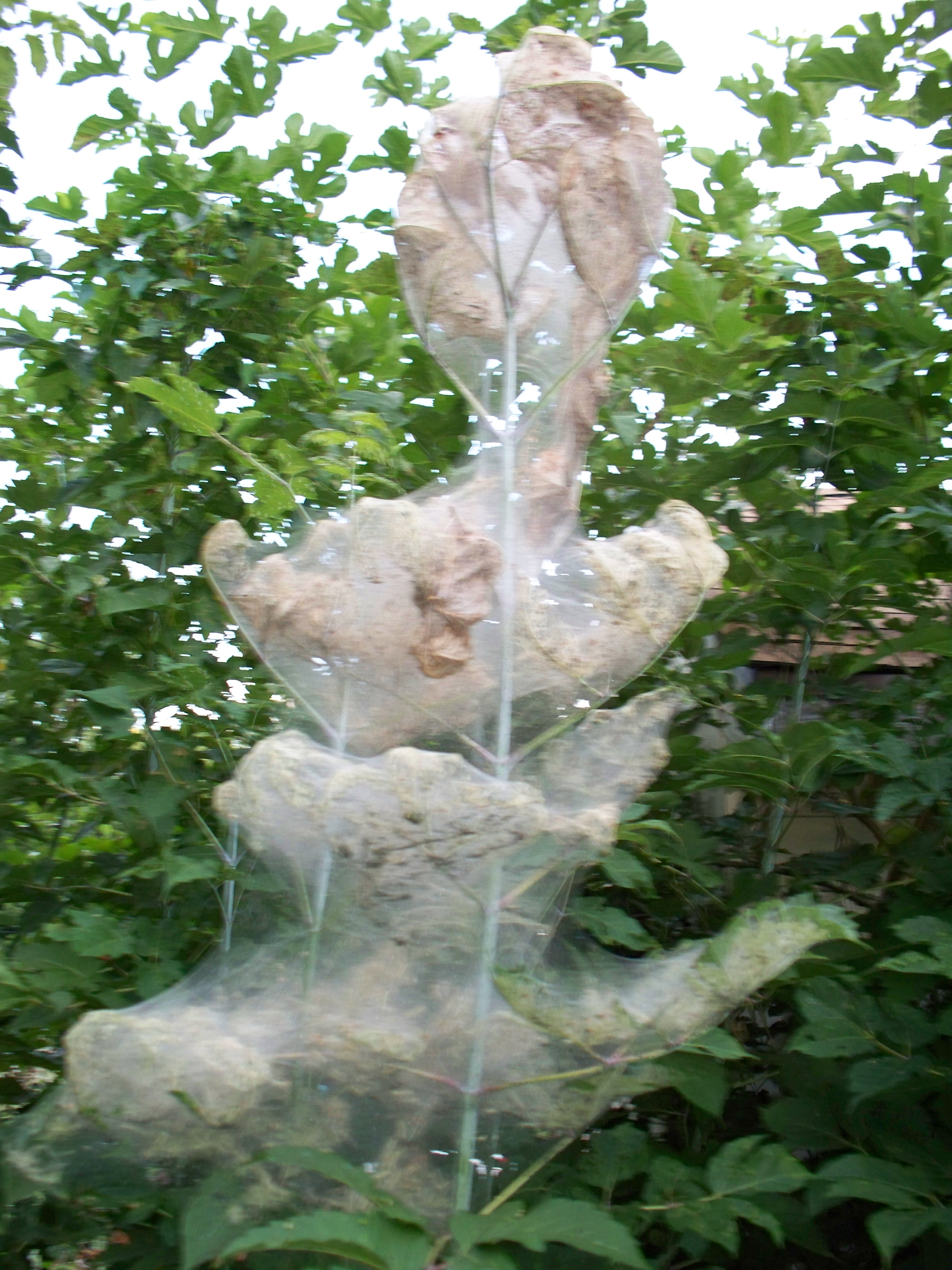 Taken outside my home in Des Moines, IA.